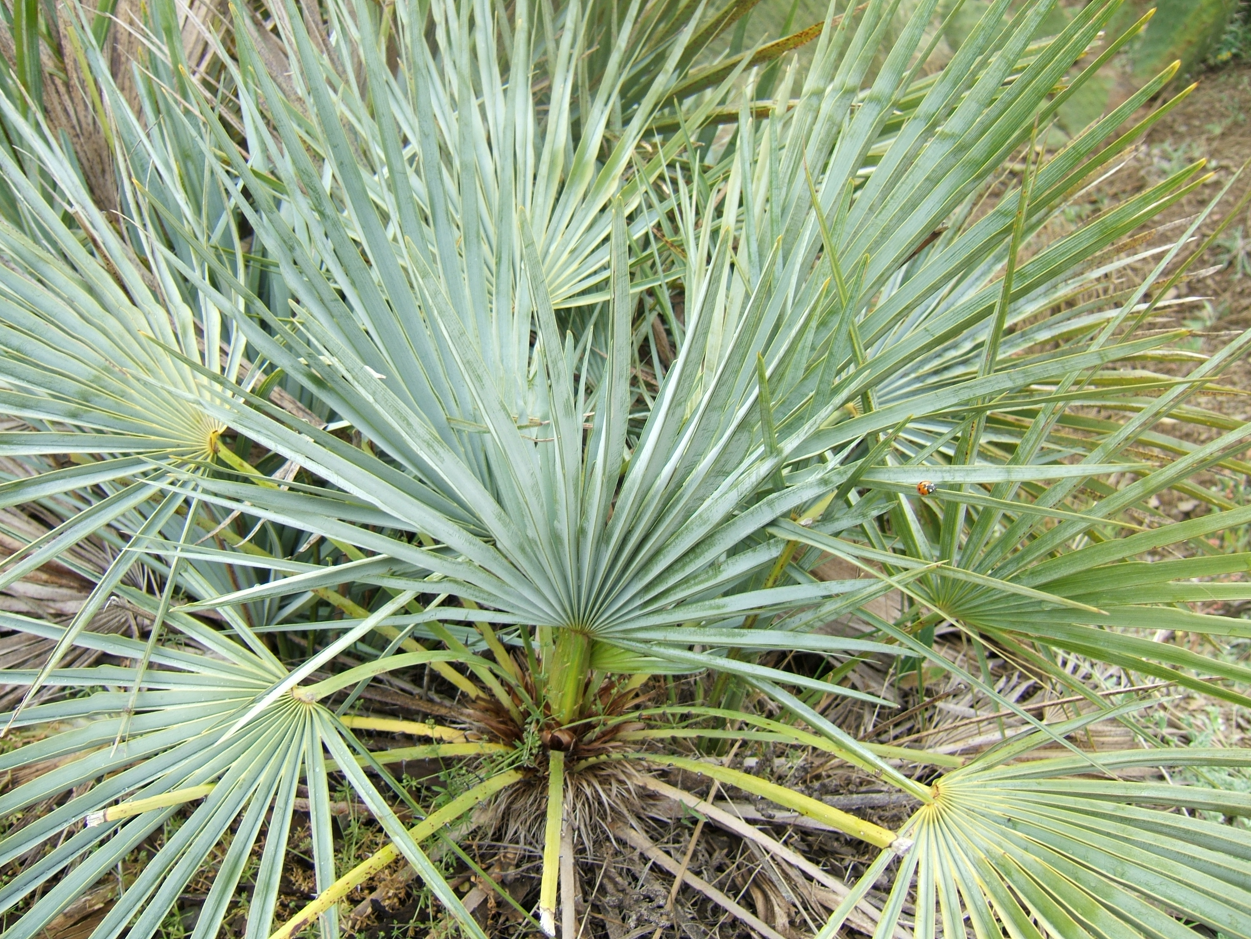 Chamaerops humilis var. argentea. Morocco: between Tizi-n-Tichka and Agouim, approx 31°N 7°20'W